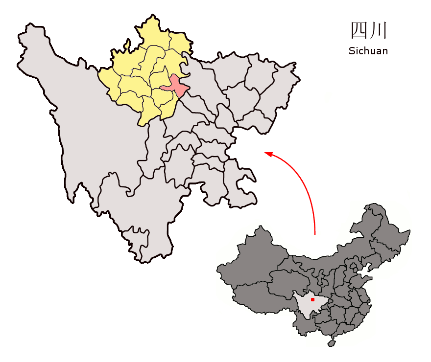 Location of Mao County (pink) and Ngawa Prefecture (yellow) within Sichuan province of China Map drawn in september 2007 using various sources, mainly : Sichuan province administrative regions GIS data: 1:1M, County level, 1990 Sichuan Counties map from